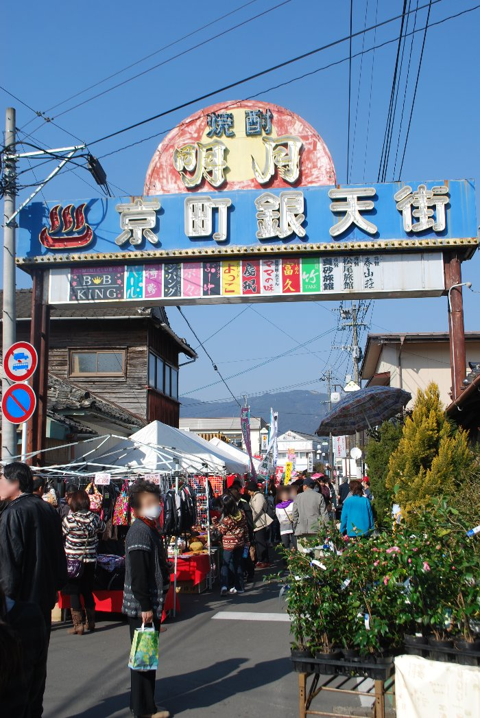 Kyomachi-Gintengai-Street Signboard,Ebino-city,Japan